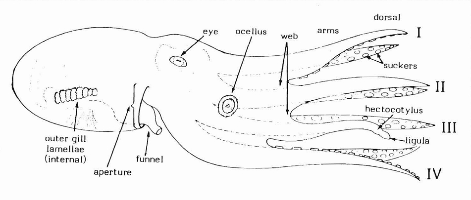 Schematic lateral aspect of octopod features